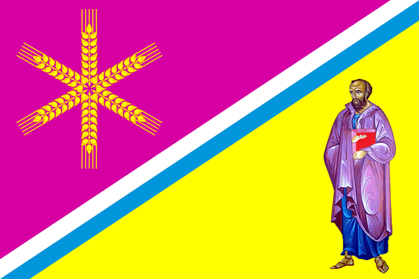 Flag of Pavlovskoe rural settlement, Krasnodar Krai, Russia